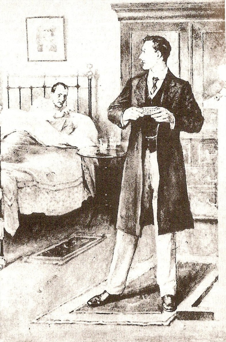 Sherlock Holmes in "The Adventure of the Dying Detective"